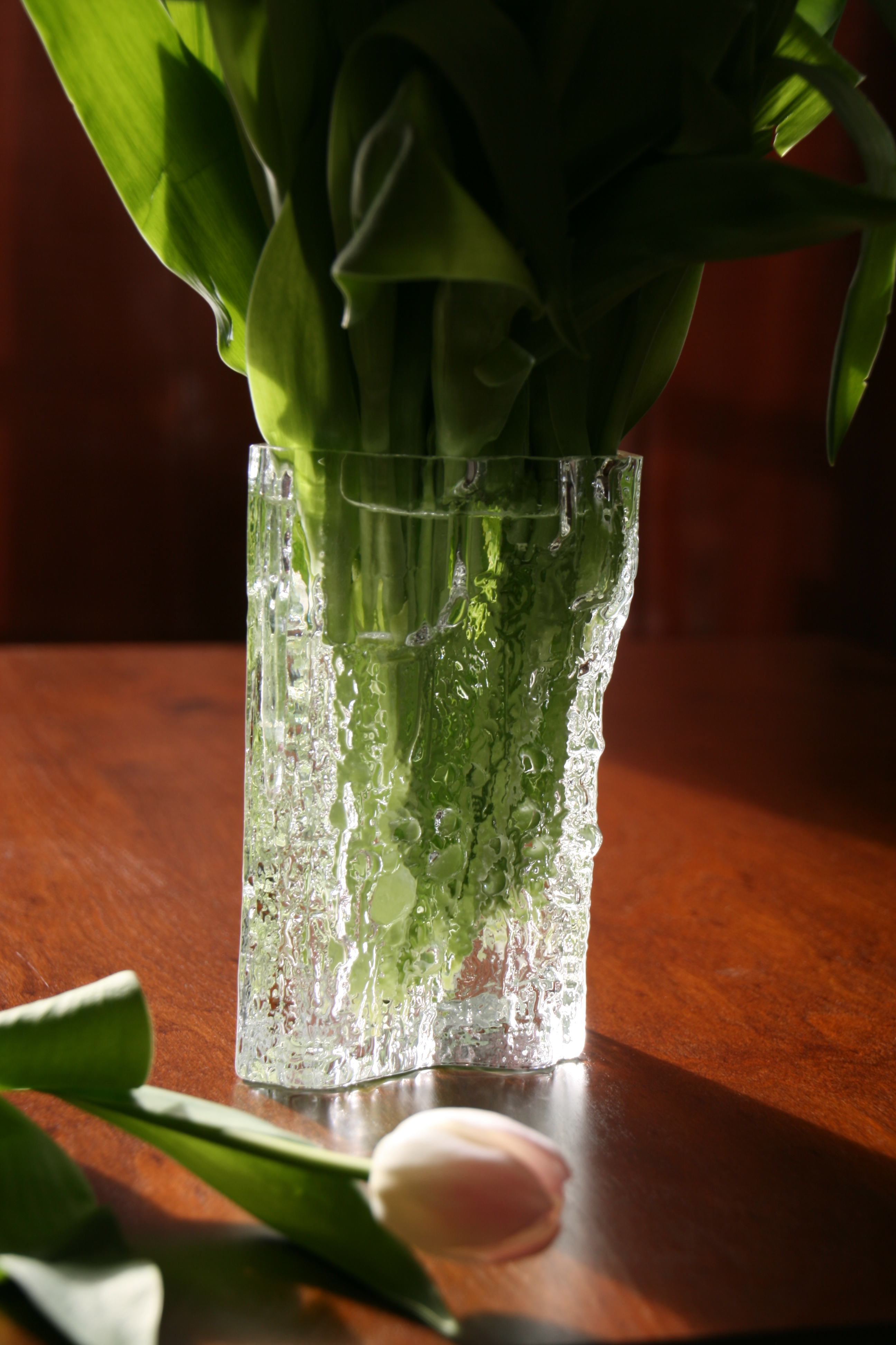 Vase Avena by Wirkkala (1970)